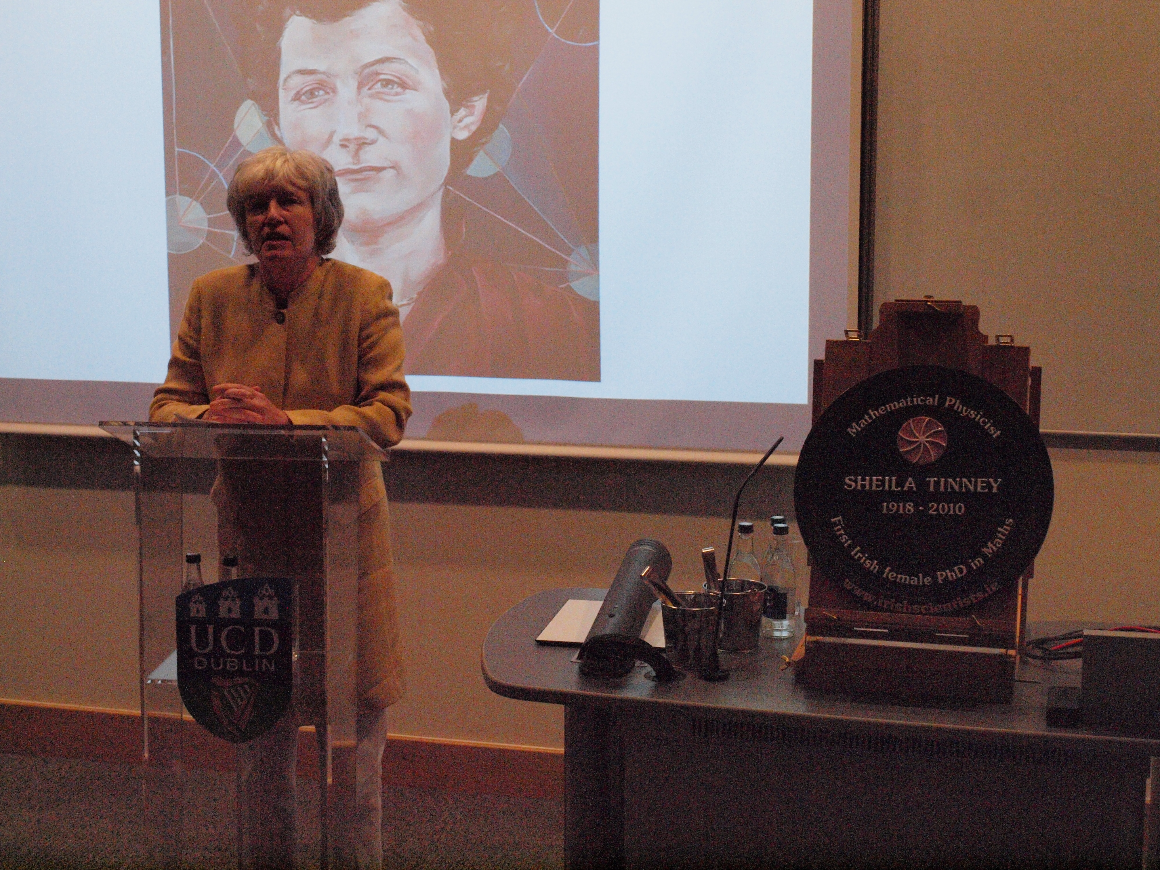 Ethna Tinney speaking at the Women in Mathematics Day 2018 annual conference in University College Dublin on 29 August 2018. During this event, the centenary of the birth of Sheila Tinney was celebrated.